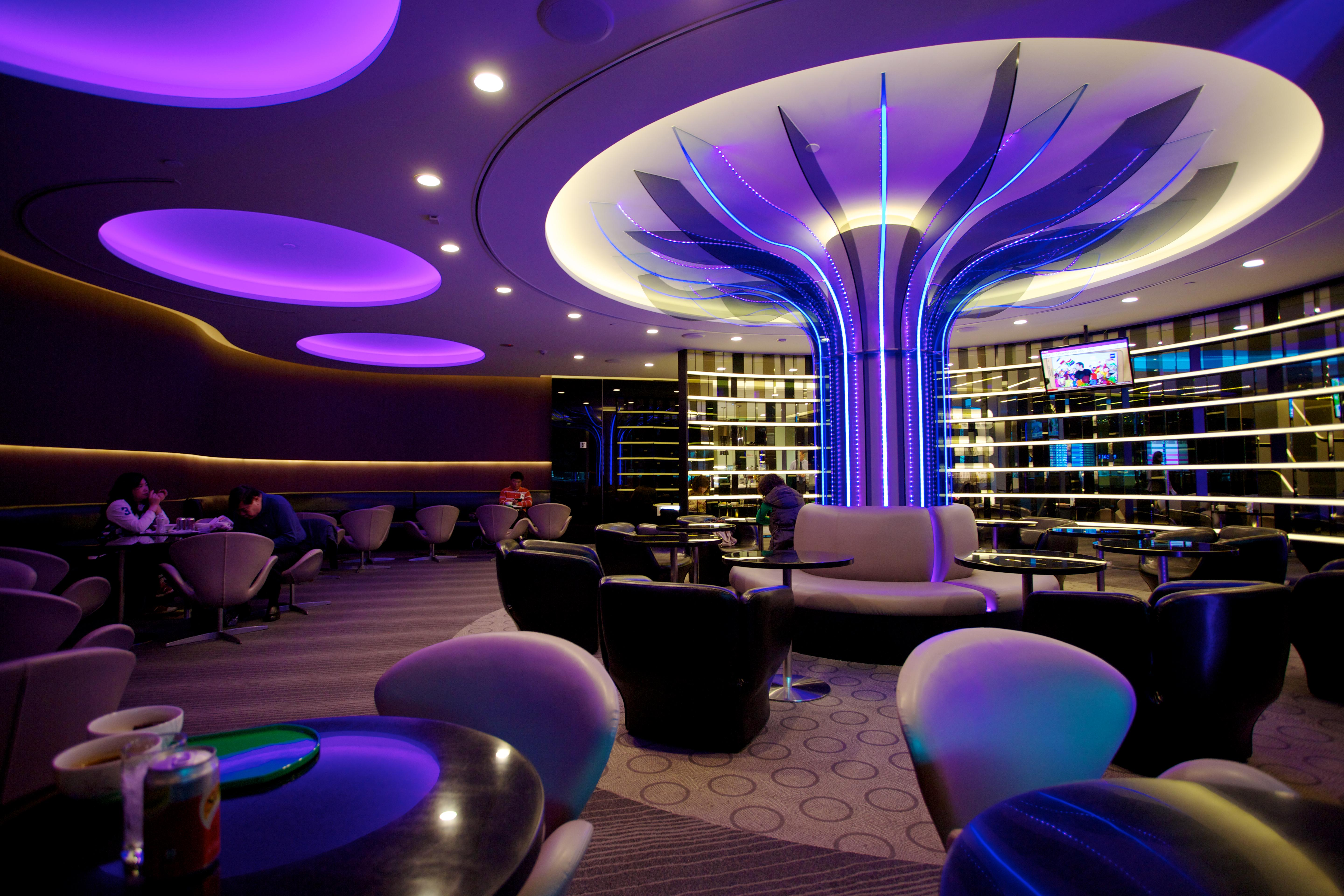 EVA Air Infinity Lounge Taipei